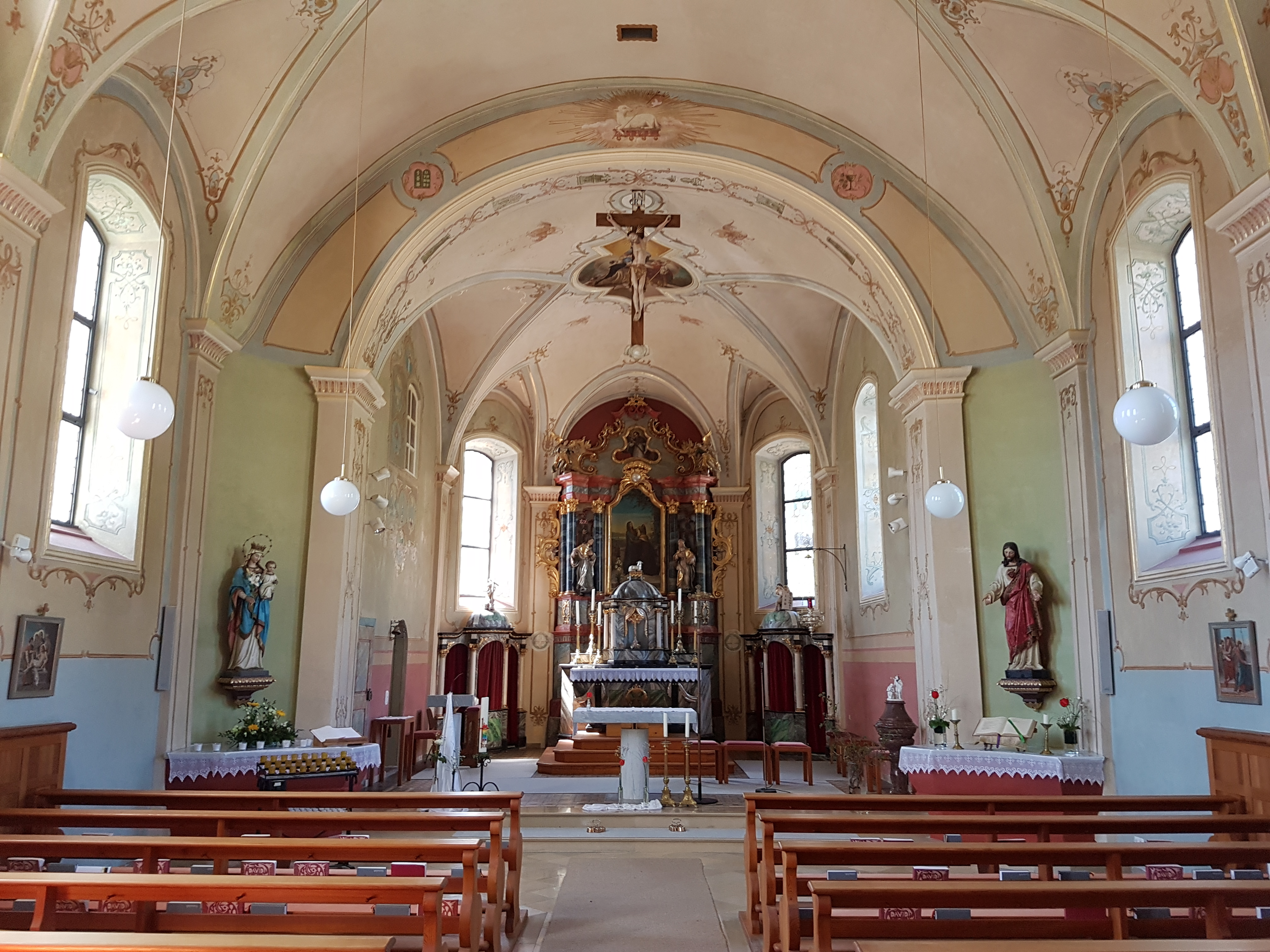 Church Our Lady of the Visitation in the hamlet of Gurtis in the market town of Nenzing in Vorarlberg, Austria. Altar.